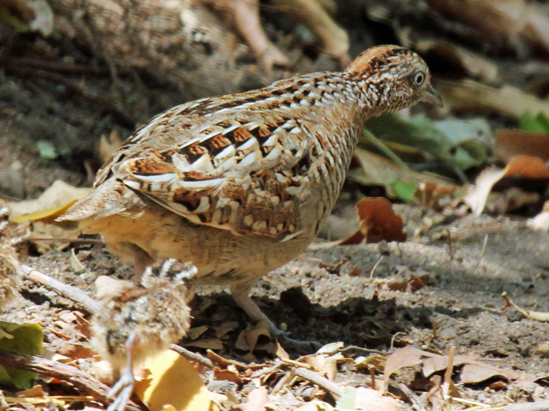 Madagascar Buttonquail (Turnix nigricollis) with a baby chick at Isola Park, Madagascar